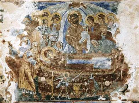 "Dormition of the Theotokos", a fresco from the Nekresi monastery, Kakheti, Georgia